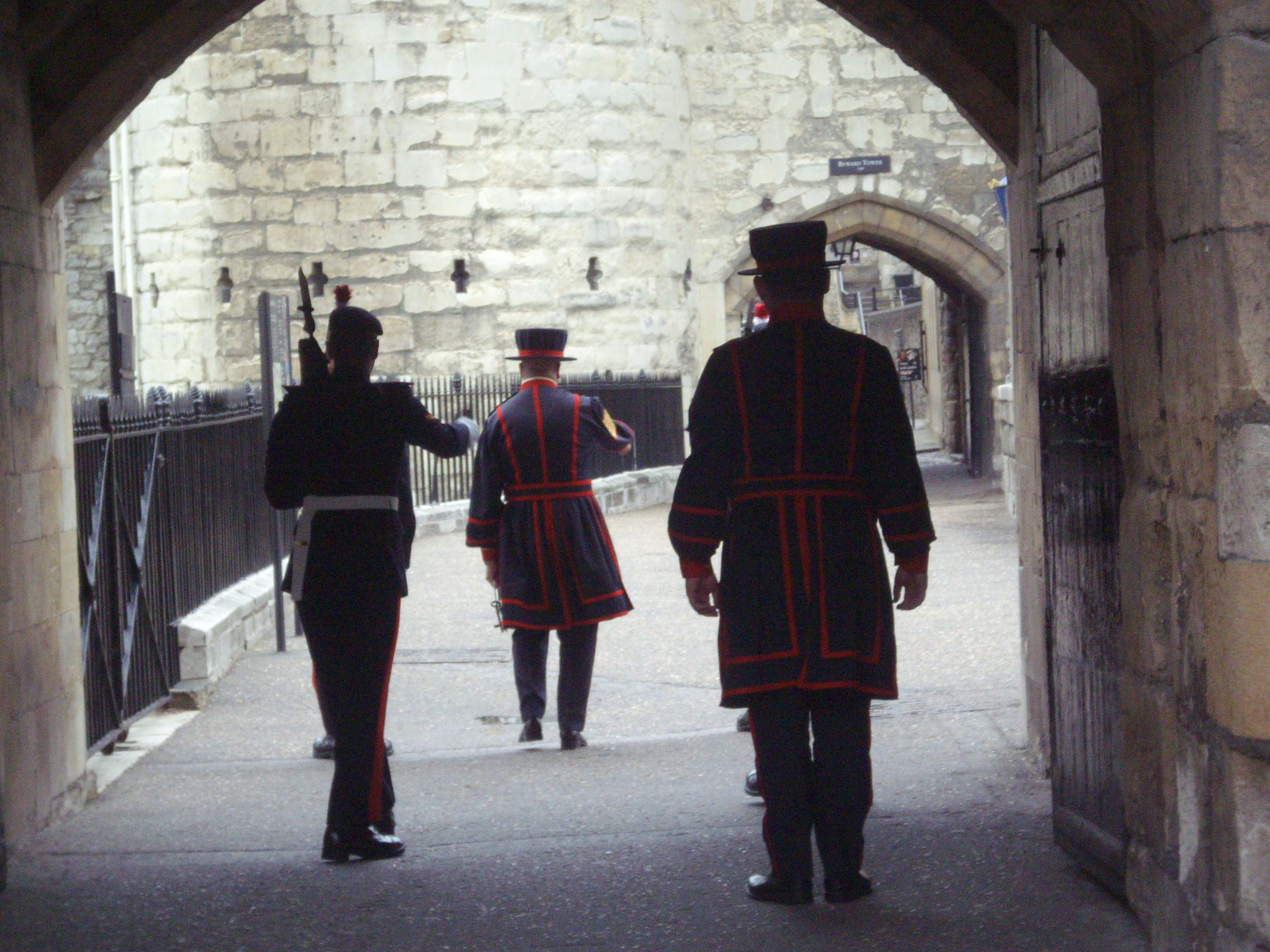 Entrance for tourists into the "Tower of London".